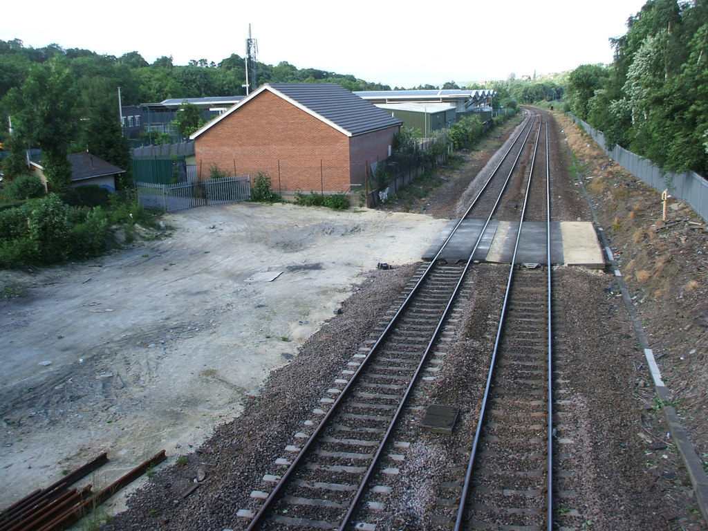 Millhouses & Ecclesall railway station (site), SheffieldOpened in 1870 by the Midland Railway on the line from Derby to Sheffield, this station closed in 1968. View north east towards Heeley and Sheffield. The left hand pair of tracks has been lifted. Out of view to the far left, the old station house was still standing when this image was taken.